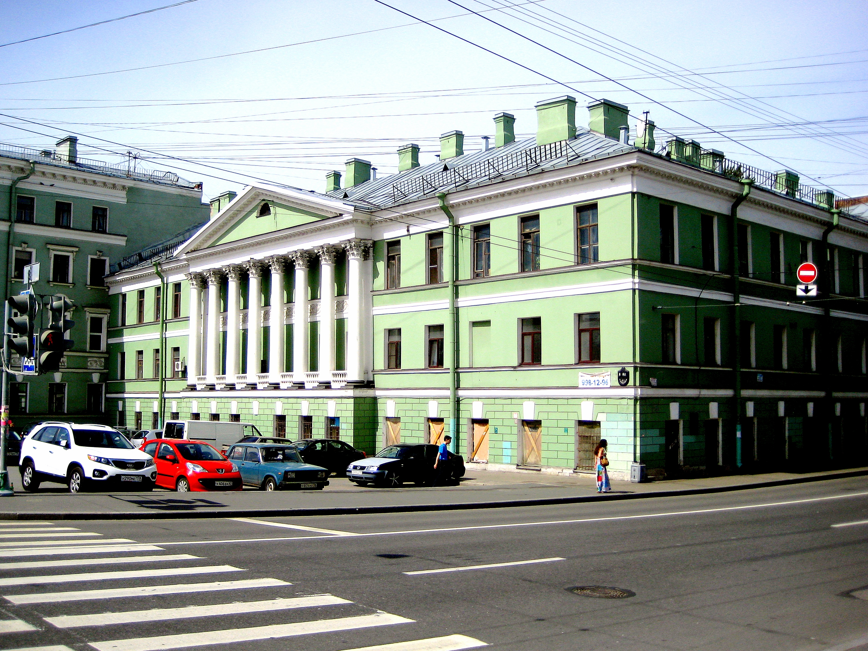 House Yakovlevs (Evmenteva AF): Fontanka Embankment, 81, Gorokhovaya street, 57, Admiralteysky District, Saint Petersburg